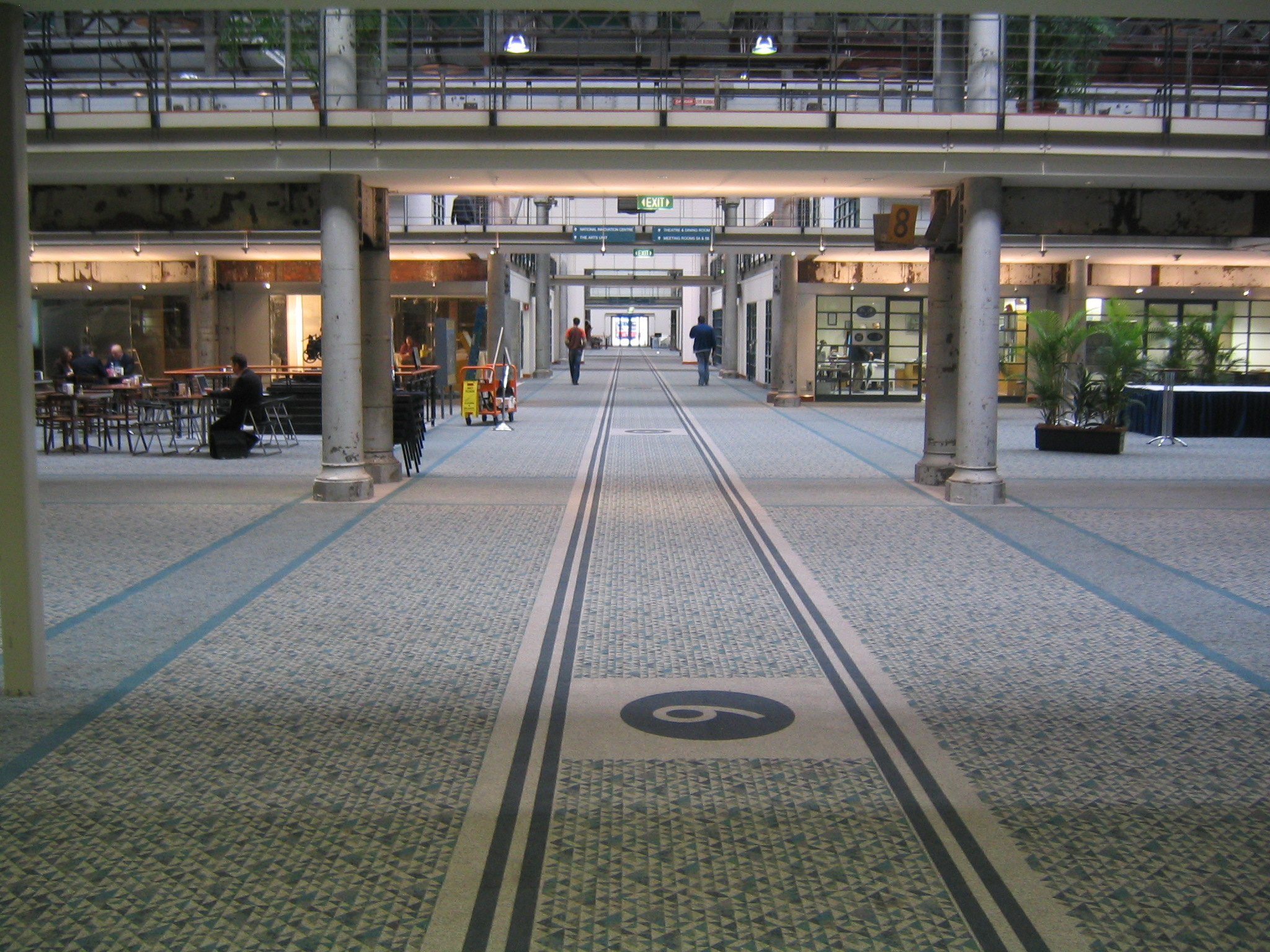 An interior view of the main walkway through the centre of the Australian Technology Park building. The ATP is in the old Eveleigh railway workshops.